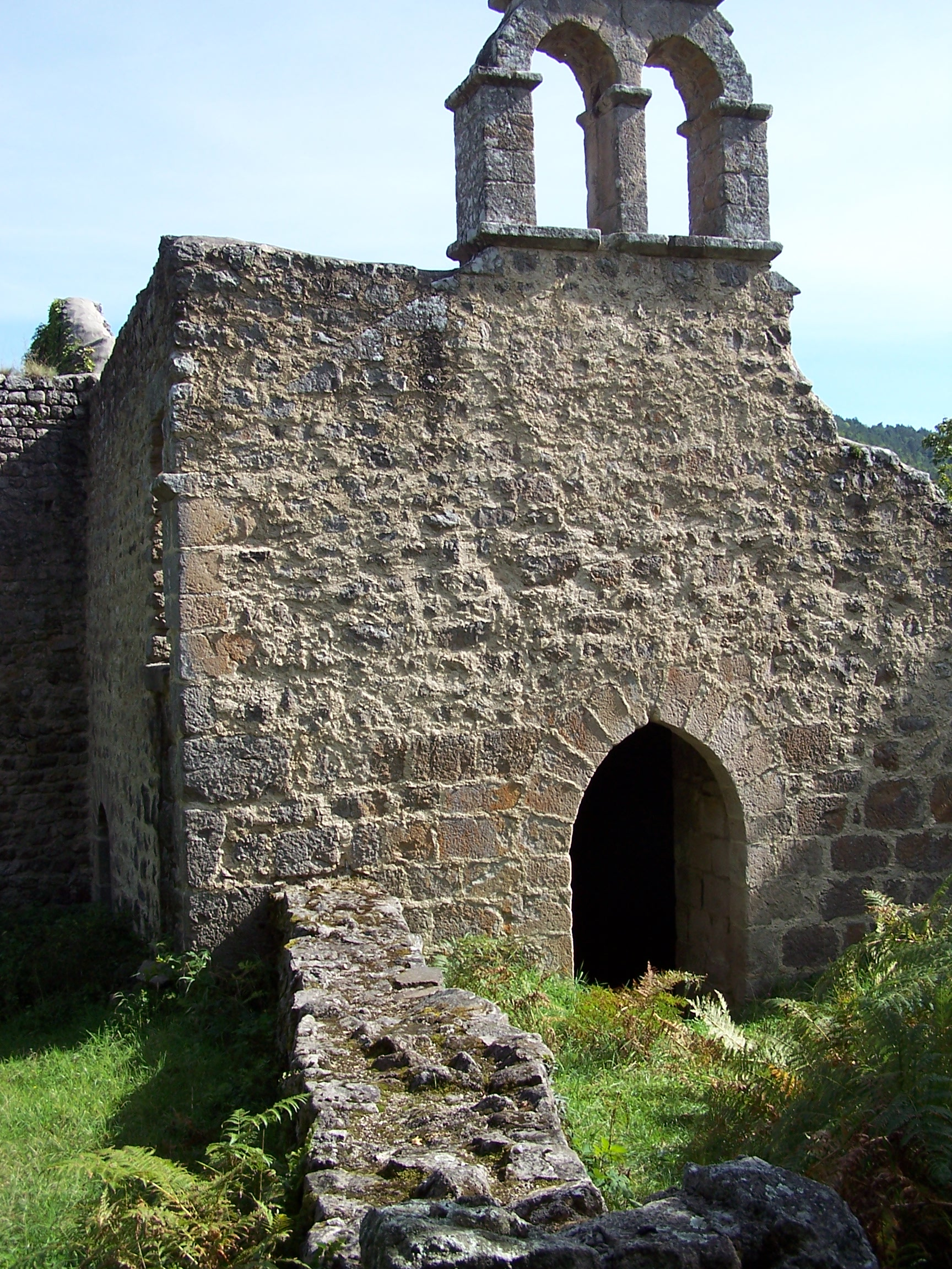 The chapelle du Fraisse in Beauzac commune (Haute-Loire departement), in France - 12th century.